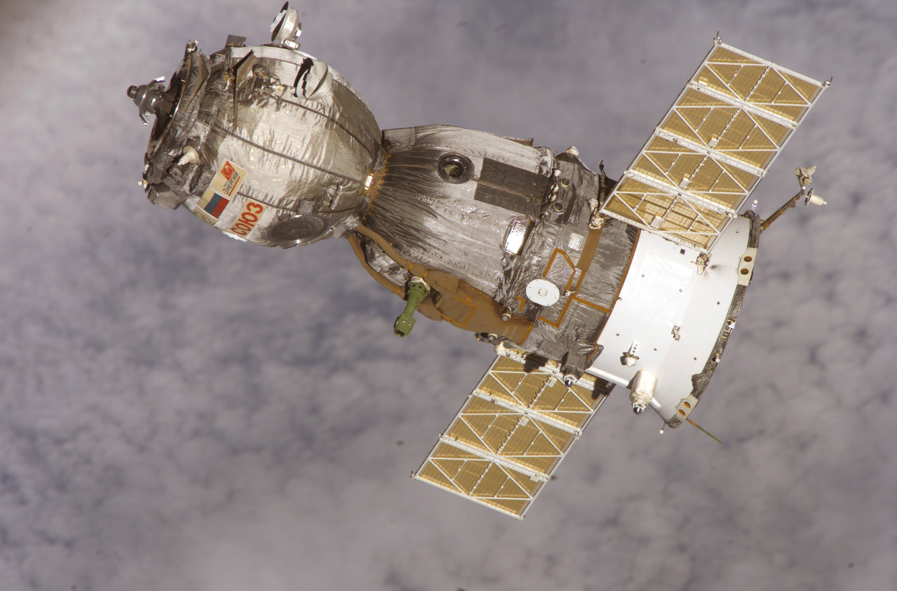 Backdropped by a blanket of clouds, the Soyuz TMA-7 spacecraft departs from the International Space Station carrying astronaut William S. (Bill) McArthur Jr., Expedition 12 commander and NASA space station science officer; Russian Federal Space Agency cosmonaut Valery I. Tokarev, flight engineer; and Brazilian Space Agency astronaut Marcos C. Pontes. Undocking occurred at 2:48 p.m. (CDT) on April 8.